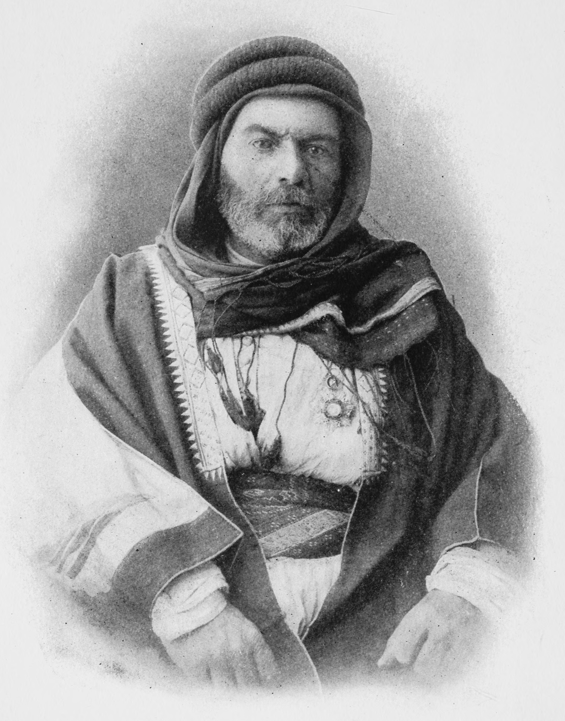 Caption from Davenport's book: "Sheikh Achmet Haffez, "my Bedouin Brother," the diplomatic ruler of the Anezeh Bedouins. This photograph was taken by the Hon. J.B. Jackson, the first American Consul in Aleppo in 1908."